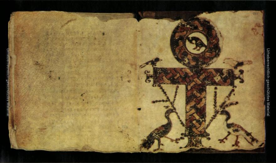 manuscript of the New Testament in Coptic; It contains text of Book of Acts 1:1-15:3; at the end illuminated cross